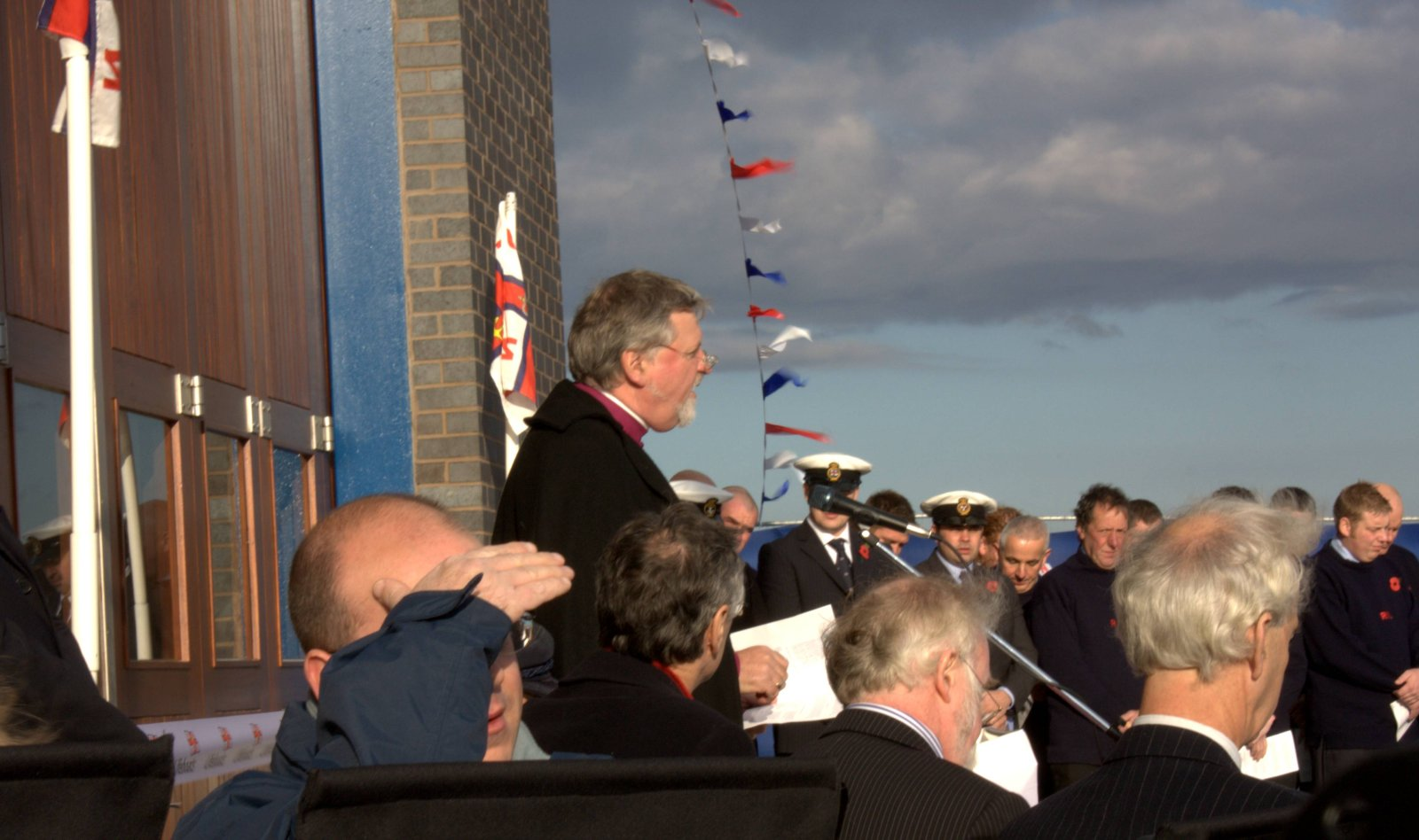 The Bishop of Birkenhead, Keith Sinclair, conducting a service of dedication.